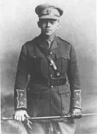 Ze'ev Jabotinsky. Archival image from the British Army, taken in Egypt where the Zion Mule Corps assembled for the Gallipoli campaign..